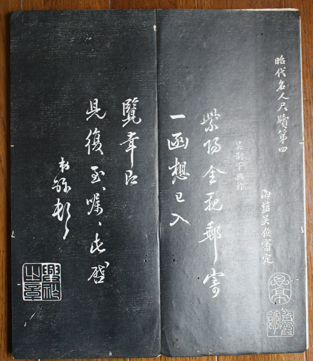 Pages of Rubbing Album of Letters of Noteds in Qing Dynasty Vol4. Edition: ACE1826